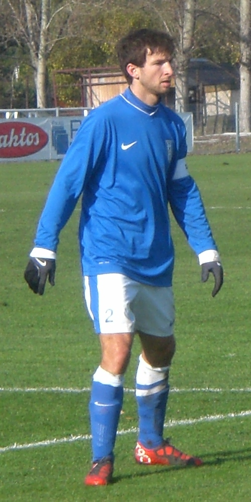 Jiří Petrů of FC Graffin Vlašim during the match against Bohemians.